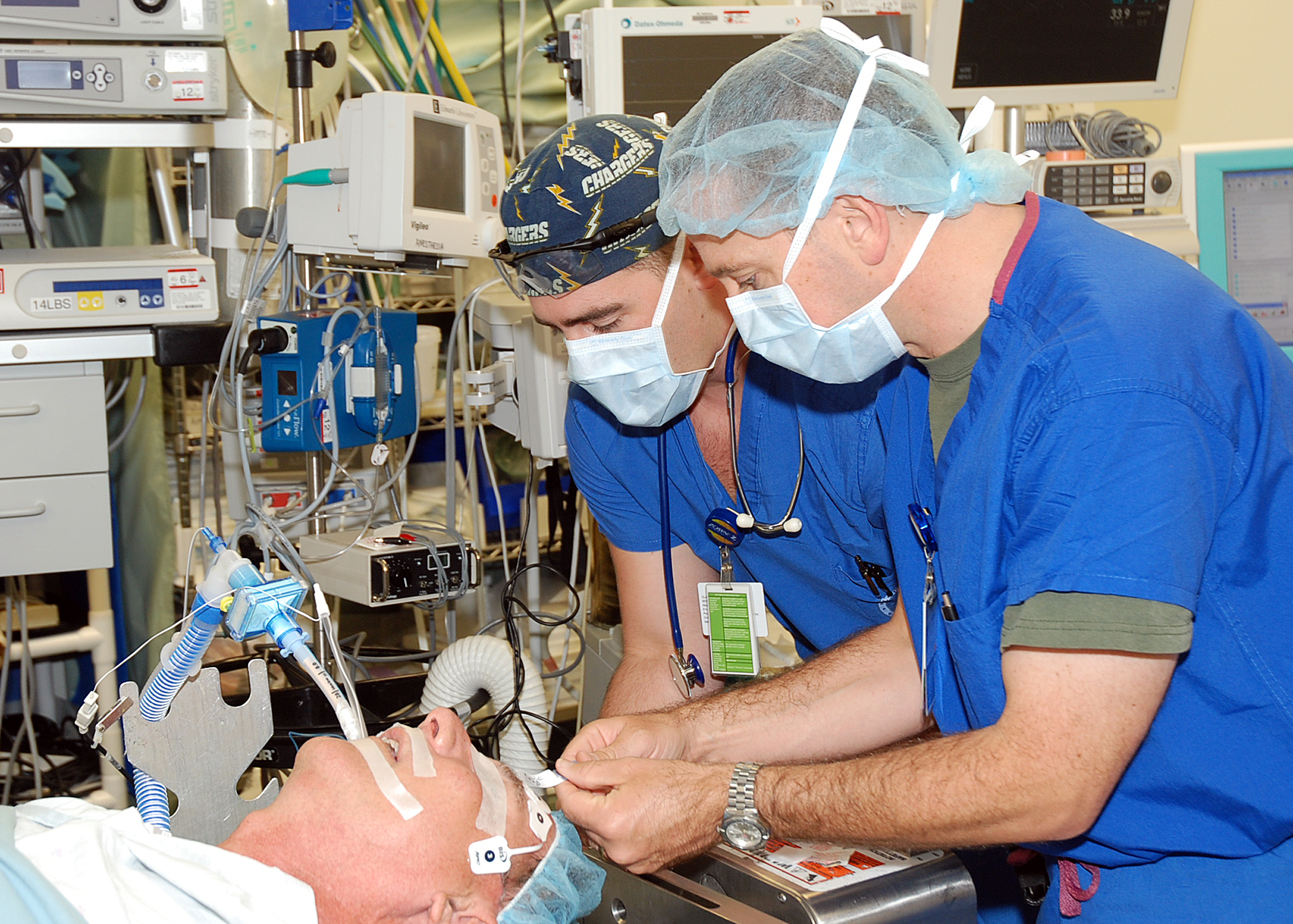 SAN DIEGO (Nov. 5, 2010) Capt. John Shapira, right, head of the Anesthesiology Department at Naval Medical Center San Diego, mentors anesthesiology resident Lt. Erik Nagel as they tend to a patient. The Naval Medical Center San Diego, Anesthesiology Department, cares for more than 16,000 patients annually. (U.S. Navy photo by Mass Communication Specialist 1st Class Todd Hack/Released)